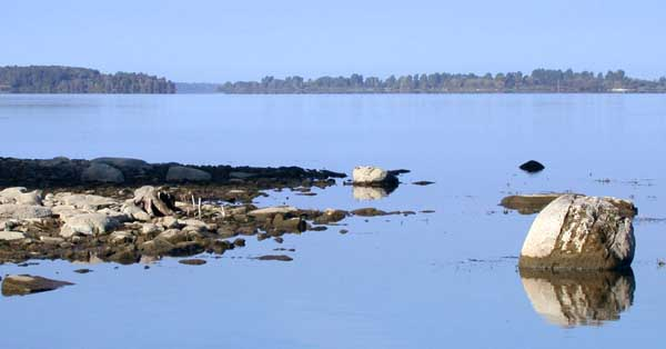 Saint Lawrence River near Robert Moses State Park - Thousand Islands along the border between New York and Quebec